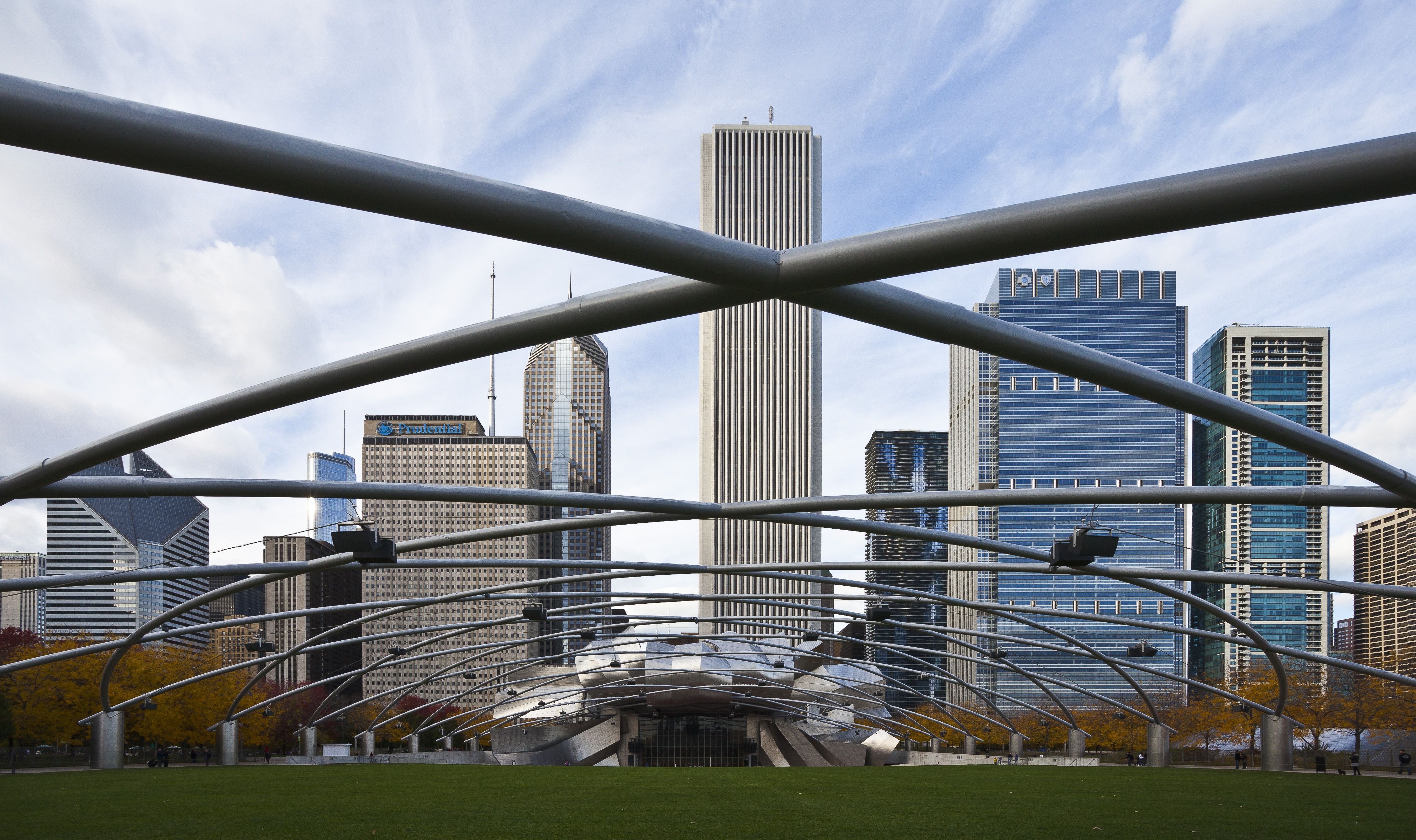 Jay Pritzker Pavilion, Chicago, Illinois, USA